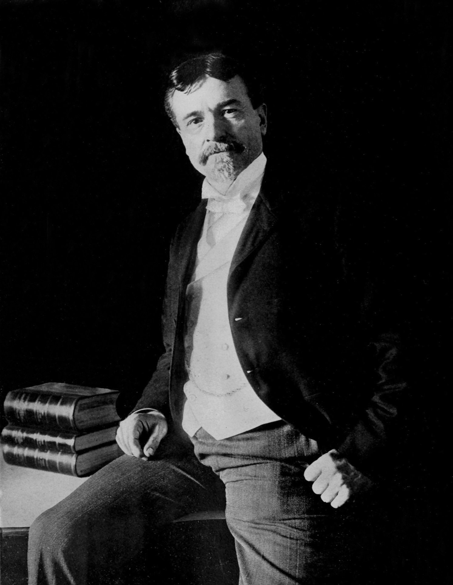 Portrait of Henry Clay Evans